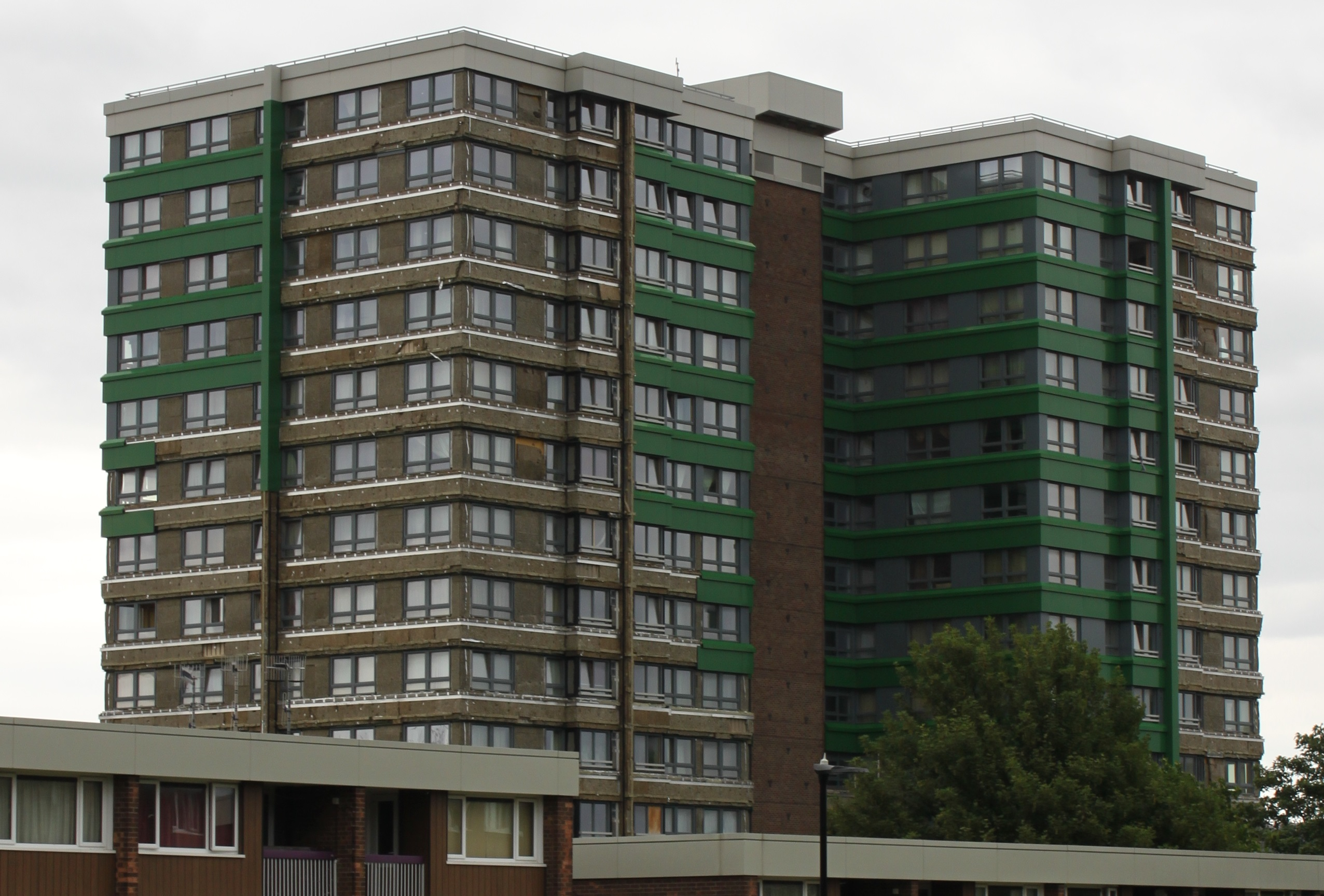 A residential tower block in Sheffield has some of its exterior panels removed with the cladding exposed for inspection following the Grenfall Tower fire, July 2017.